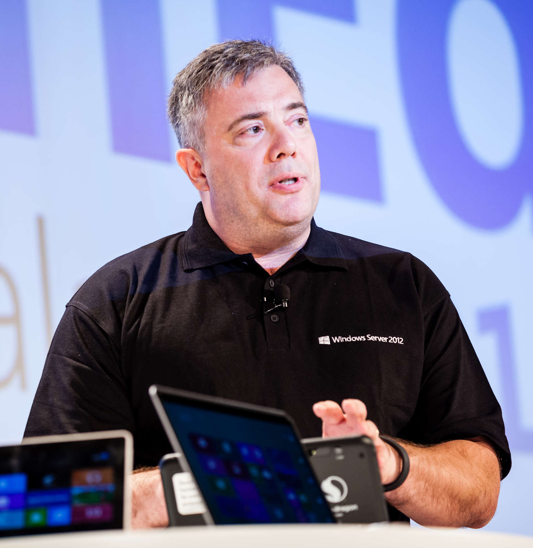 Paul Thurrott. 2012 Keynote Address, Auckland, New Zealand